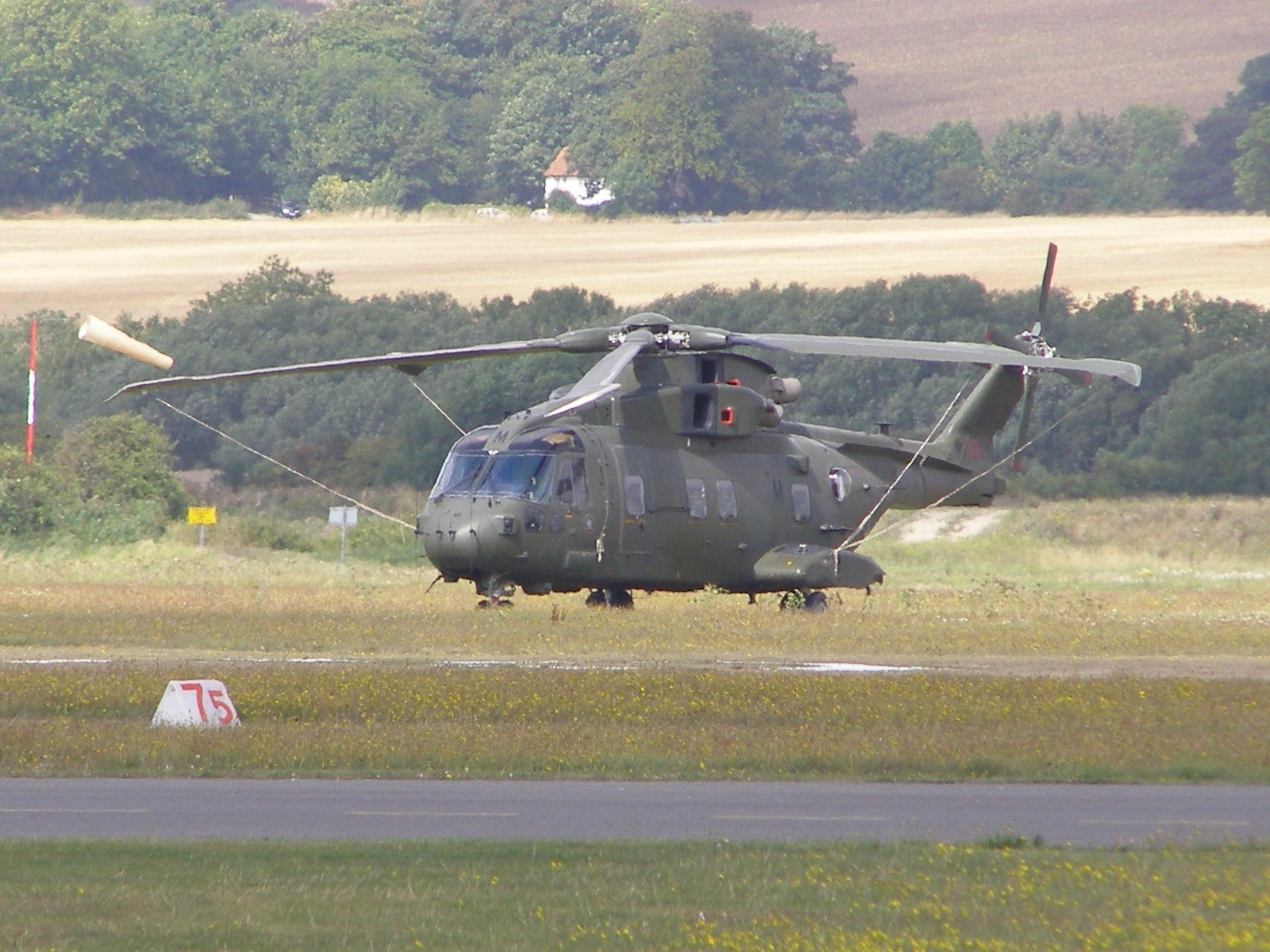 AgustaWestland Merlin HC3 of the Royal Air Force at Shoreham Airport, England in August 2006